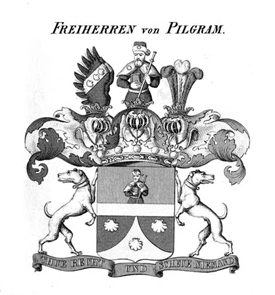 Coat of Arms of Pilgram (Austria)